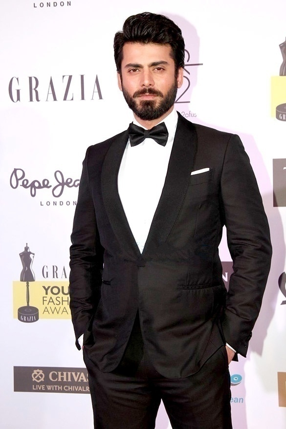 Fawad Khan at red carpet of grazia young faishon awards